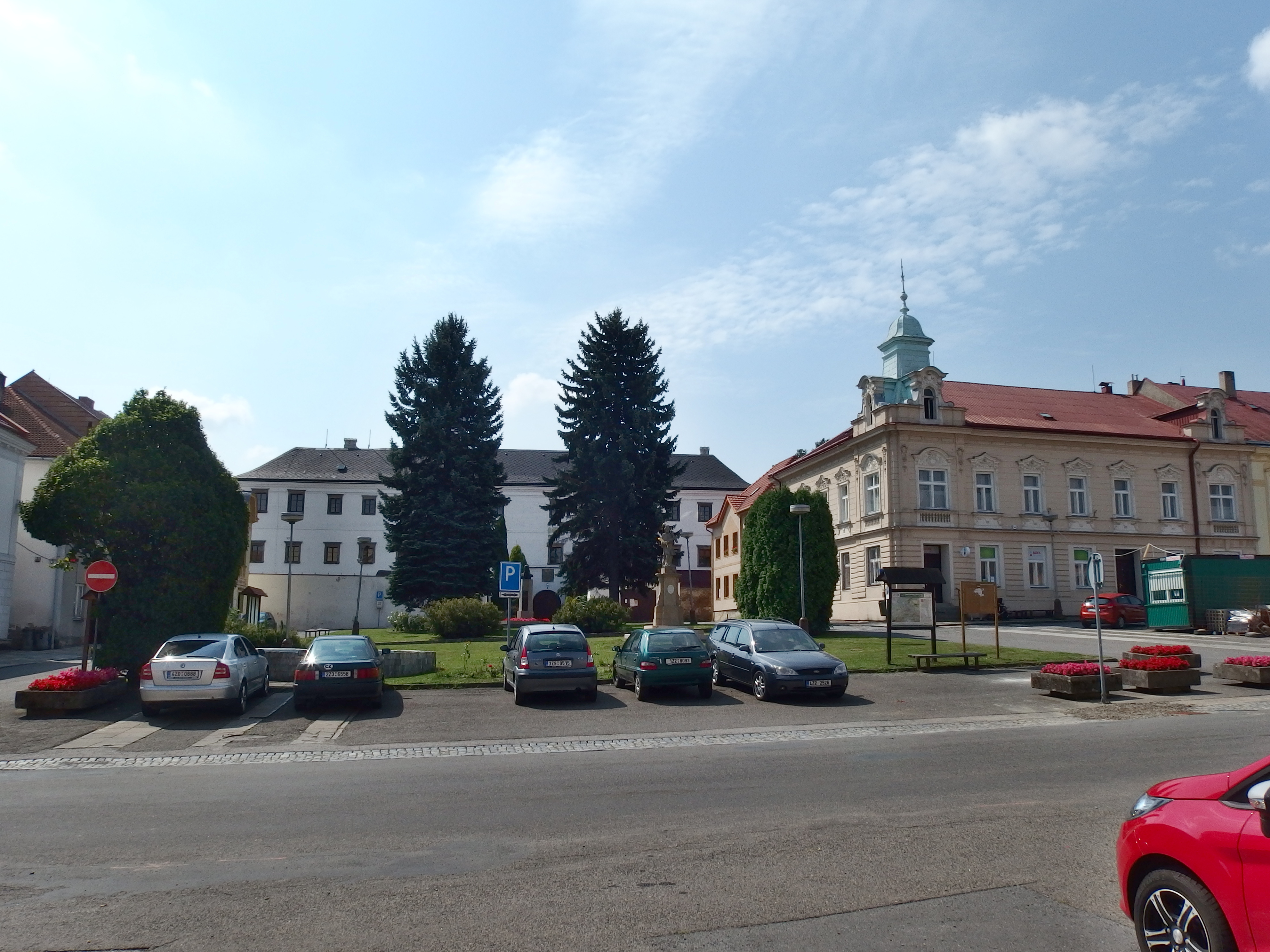 Kelč, Vsetín District, Czech Republic.